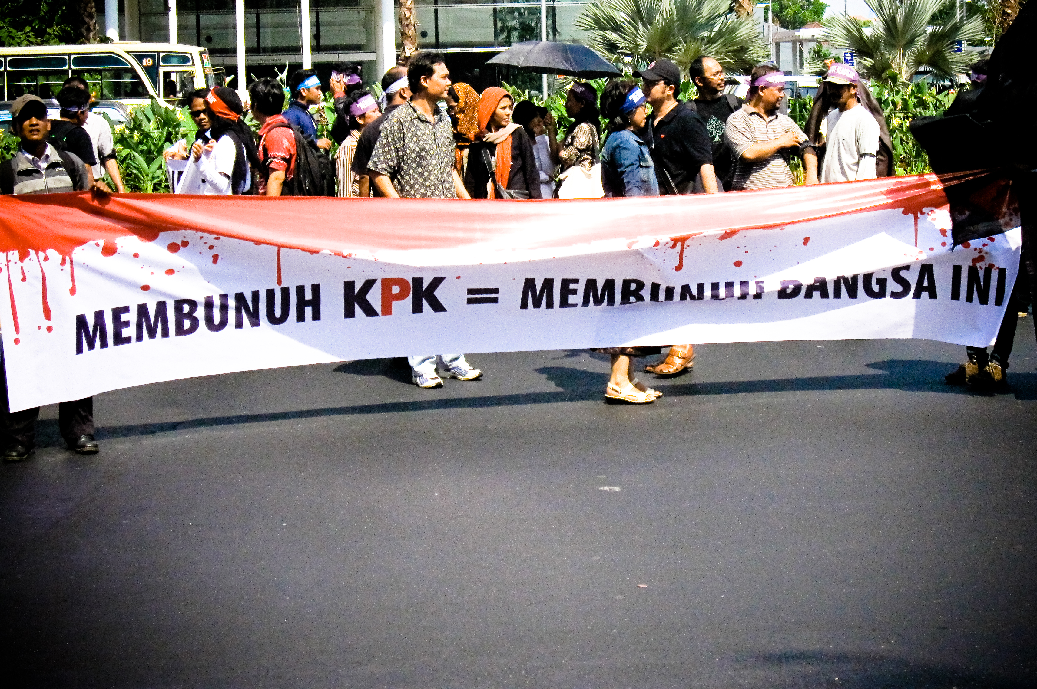 Peaceful rally in support of the Corruption Eradication Commission (KPK). Slogan reads "Killing the KPK is the same as killing this nation".